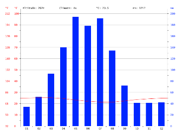 Climatograma de Malhador